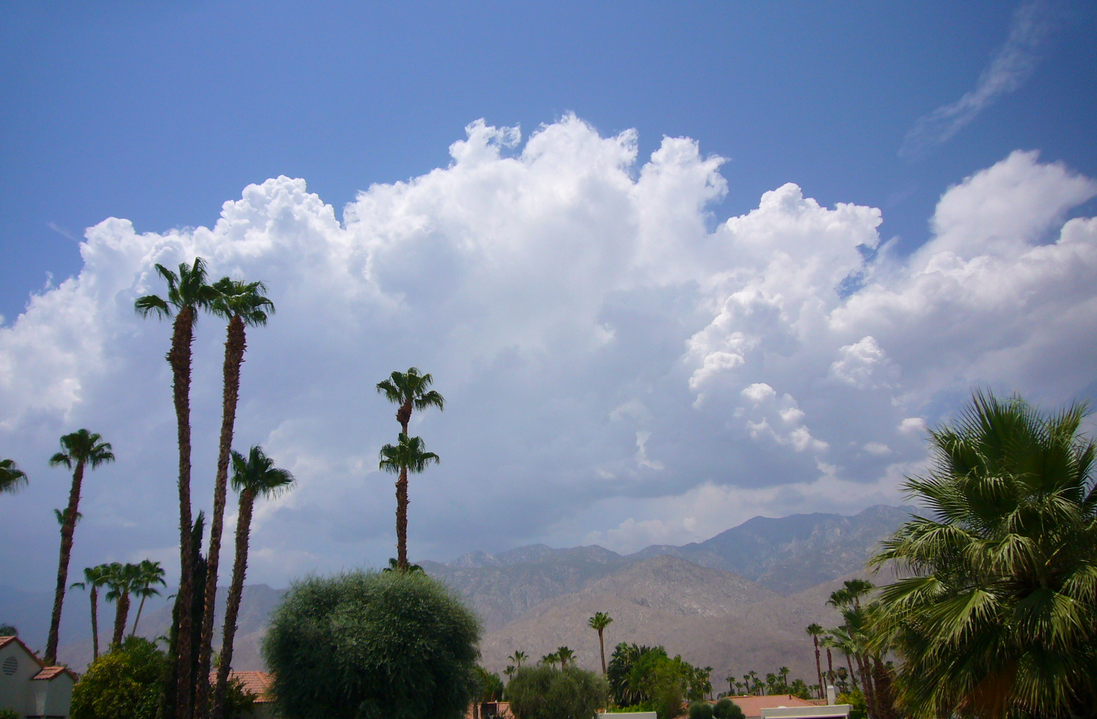 Some cumulus congestus clouds building up over the San Jacinto Mountains — view from Palm Springs, California. "I'm planning to be up in the mtns. tomorrow. This shot is from my front yard."